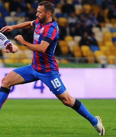 Lucian Sanmartean